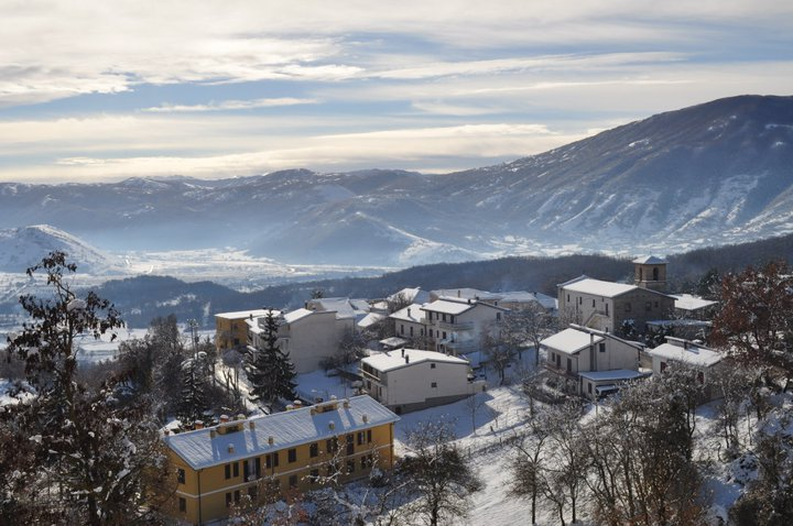 Spedino di Borgorose landscape after the 20th December 2010 snowfall.